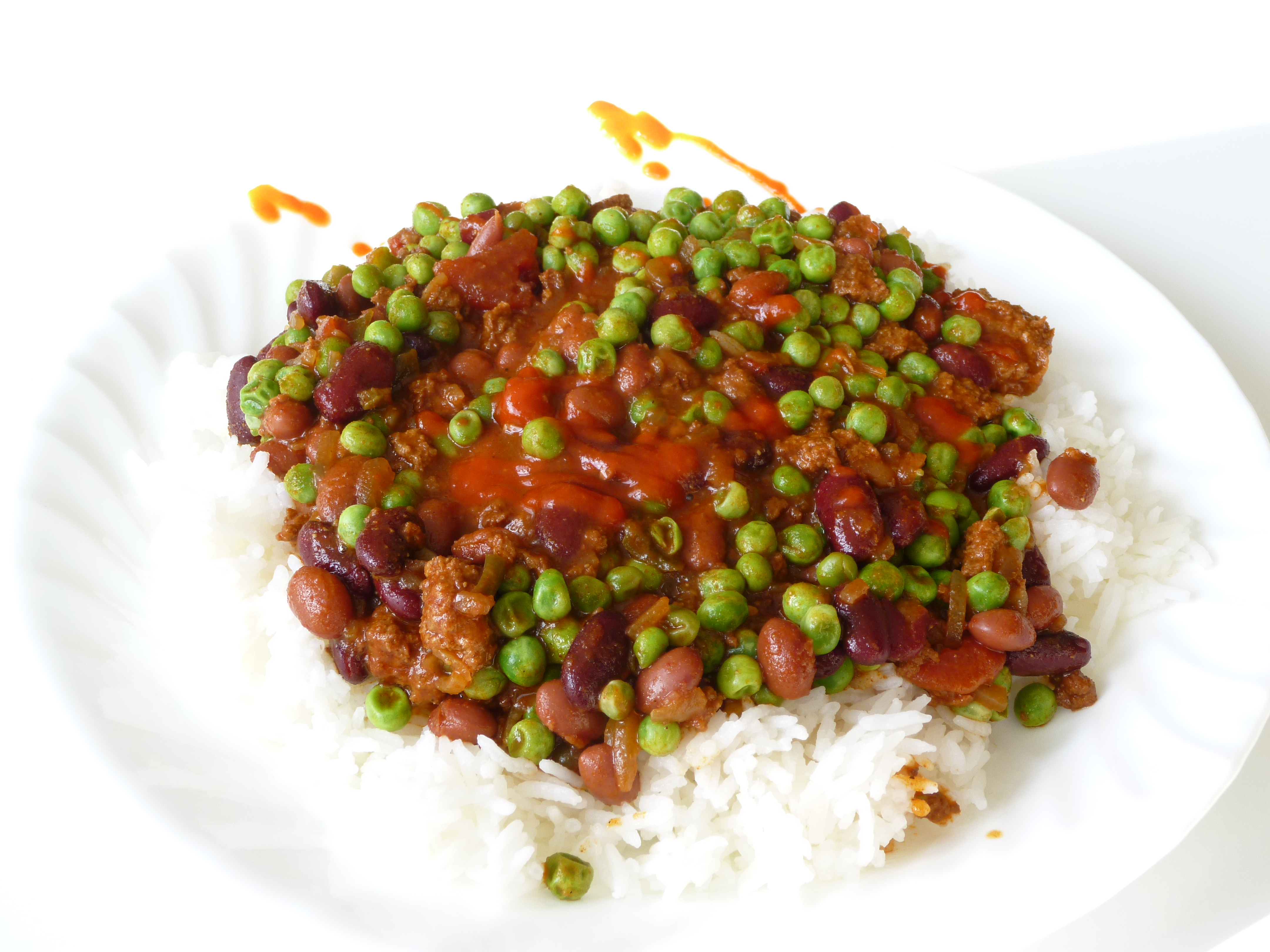 served on rice. A quick and easy meal made at home.